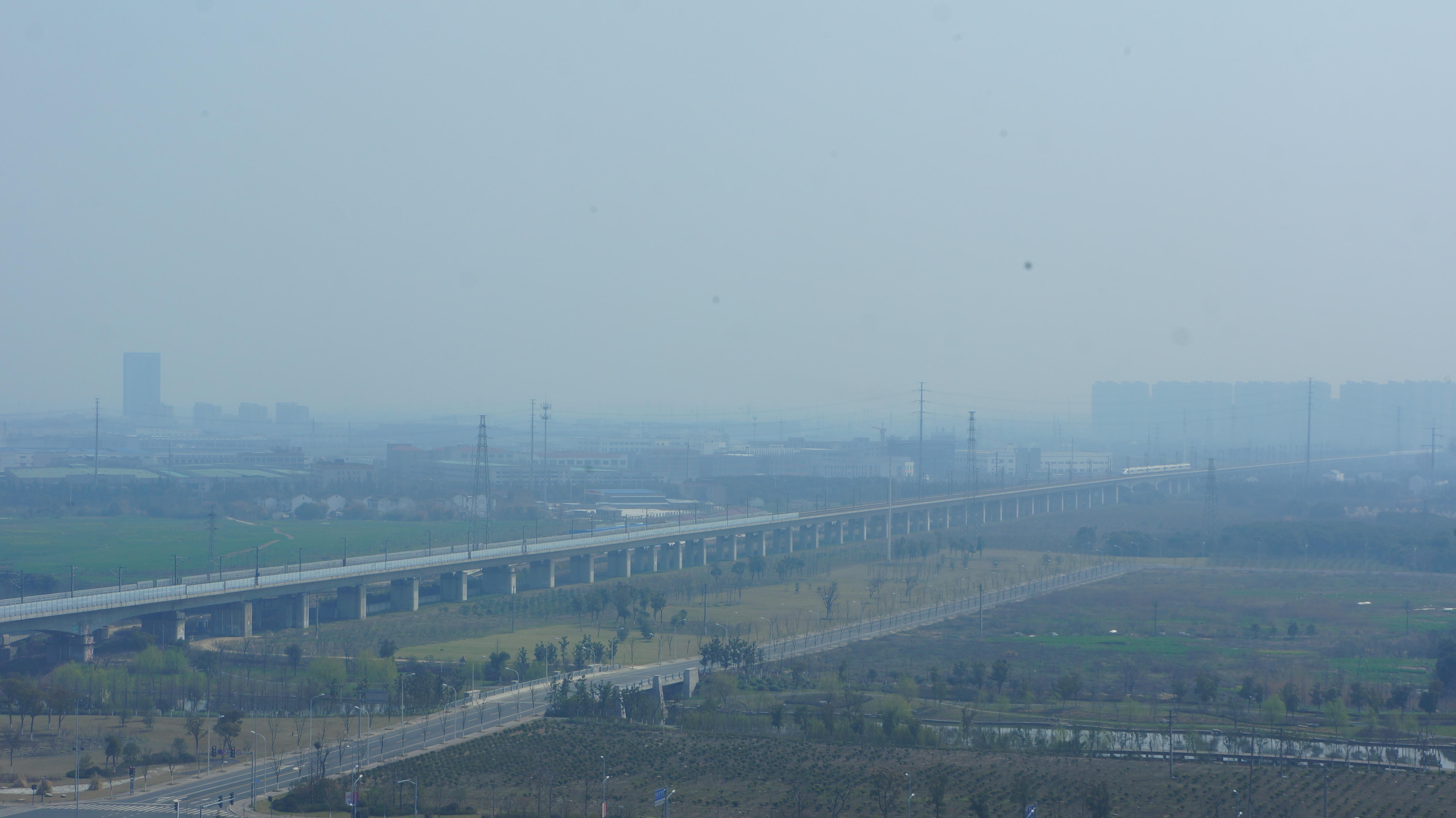 201603 Danyang-Kunshan grand bridge (wuxi)